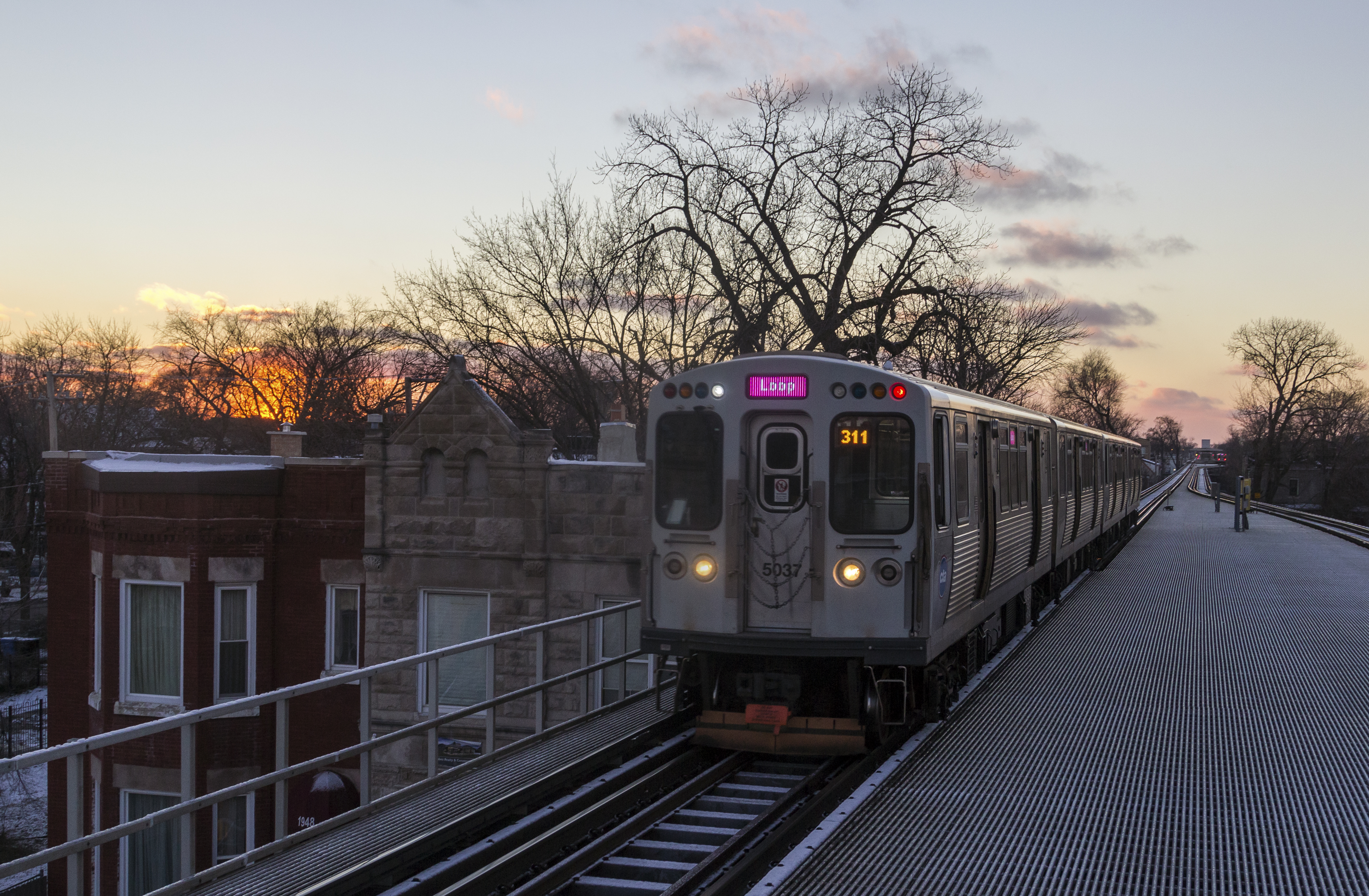 At sunset, CTA car 5037 leads Loop-bound Pink Line run 311 into Kedzie station on the Cermak / Douglas Branch in Chicago's North Lawndale neighborhood. The Douglas Branch was completely rebuilt between 2001 and 2005, and in 2006 the new Pink Line began service to the Loop via the branch. Previously, it had only been served by weekday Blue Line trains that did not use the Forest Park Branch. Rush-period-only Blue Line trains continued to use the Douglas 'L' alongside the Pink Line service until 2008. The combination of the then-new Pink Line service plus the extra Blue Line trains that were no longer diverted to the branch meant that service to 54th/Cermak as well as to Forest Park could be significantly increased. This also gave Douglas Branch passengers a one-seat ride directly to the West Side and the Loop 'L'.